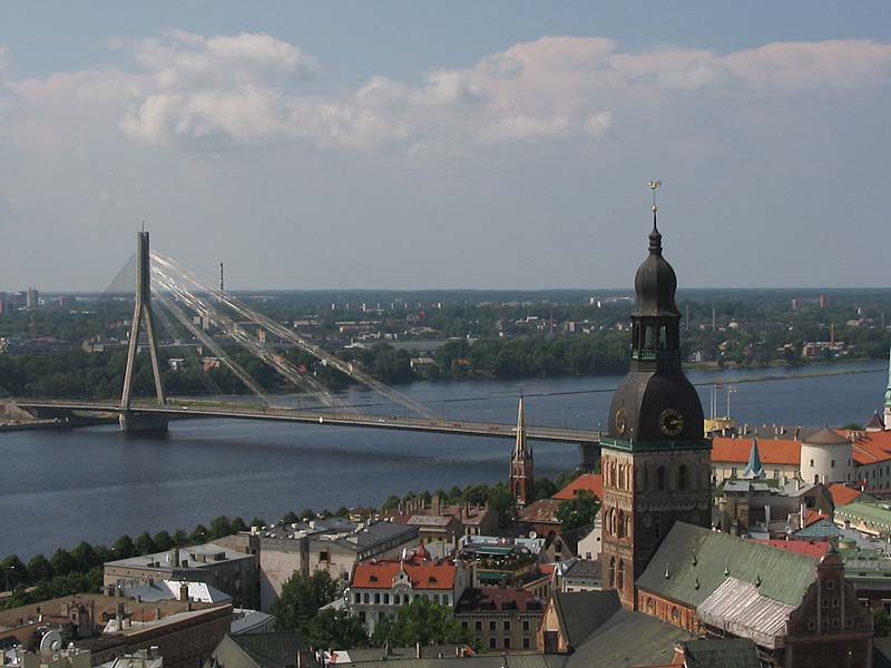 View of the Daugava River flowing by old town Riga with the Vanschu bridge and the Lutheran Dome Cathedral, Riga Castle to the right.